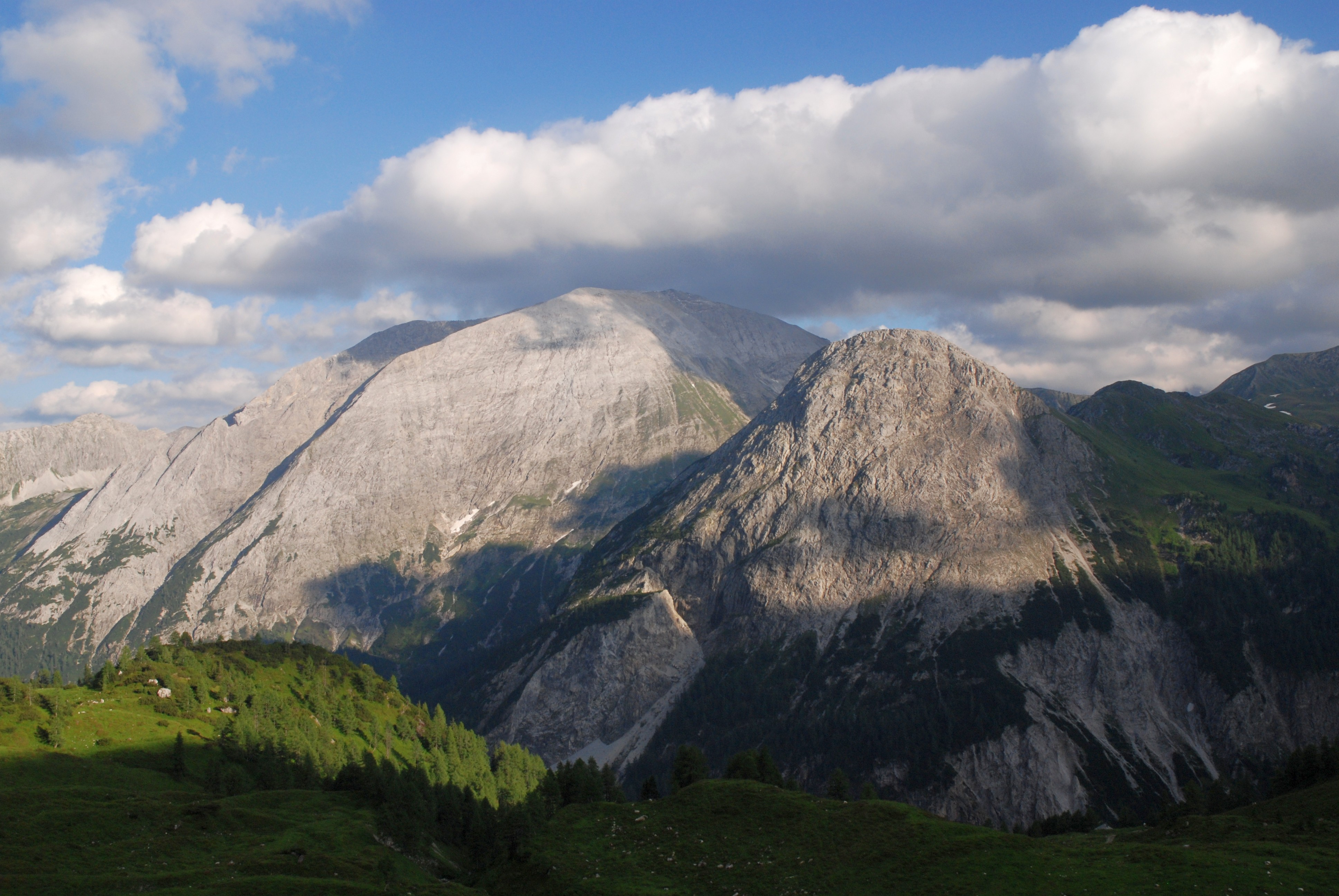 Weißeck (background) and Riedingspitze (in front), seen from Franz Fischer Hütte